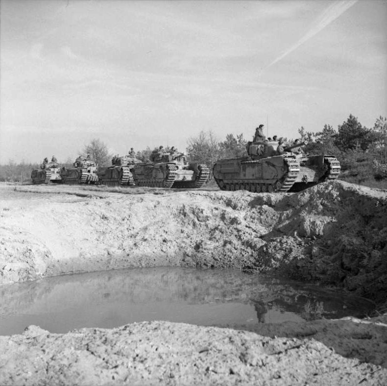 IWM caption : Churchill tanks of 9th Royal Tank Regiment‚ 31st Tank Brigade during the advance towards Goch, Germany,19 February 1945.